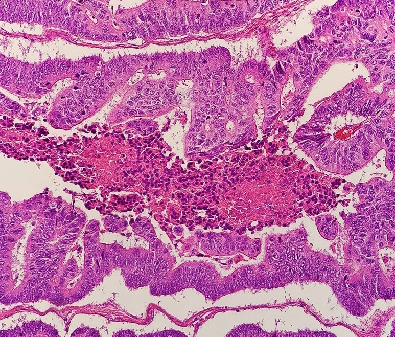 Micrograph of a moderately differentiated colorectal carcinoma with dirty necrosis.